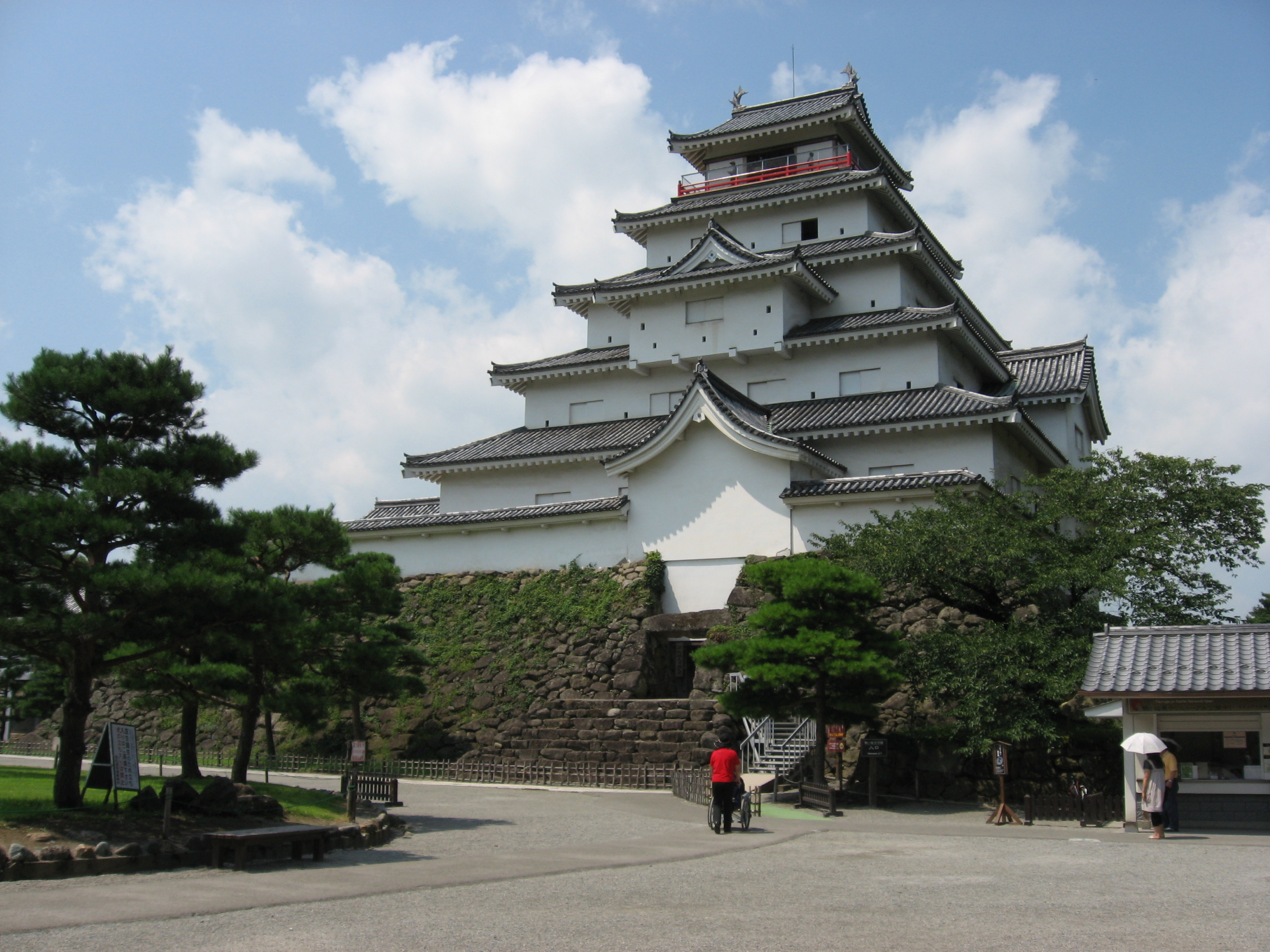 Aizuwakamatsu Castle